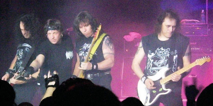 Russian heavy metal band Aria, performing at a show in Vladivostok